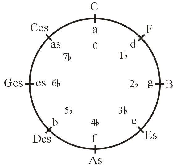 Circle of fourths